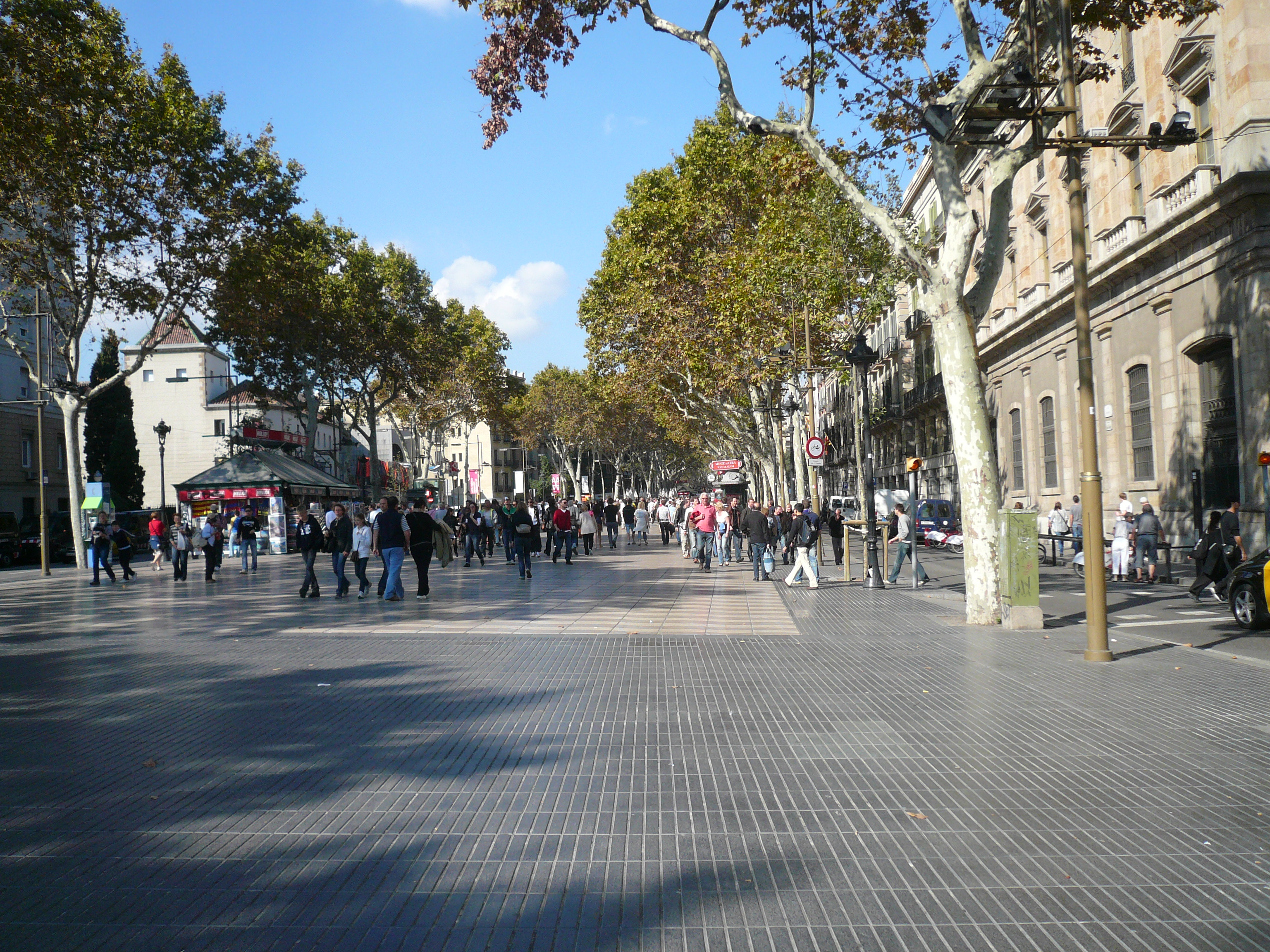 La Rambla, Barcelona